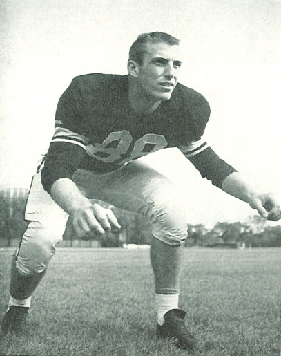 Jim Gibbons